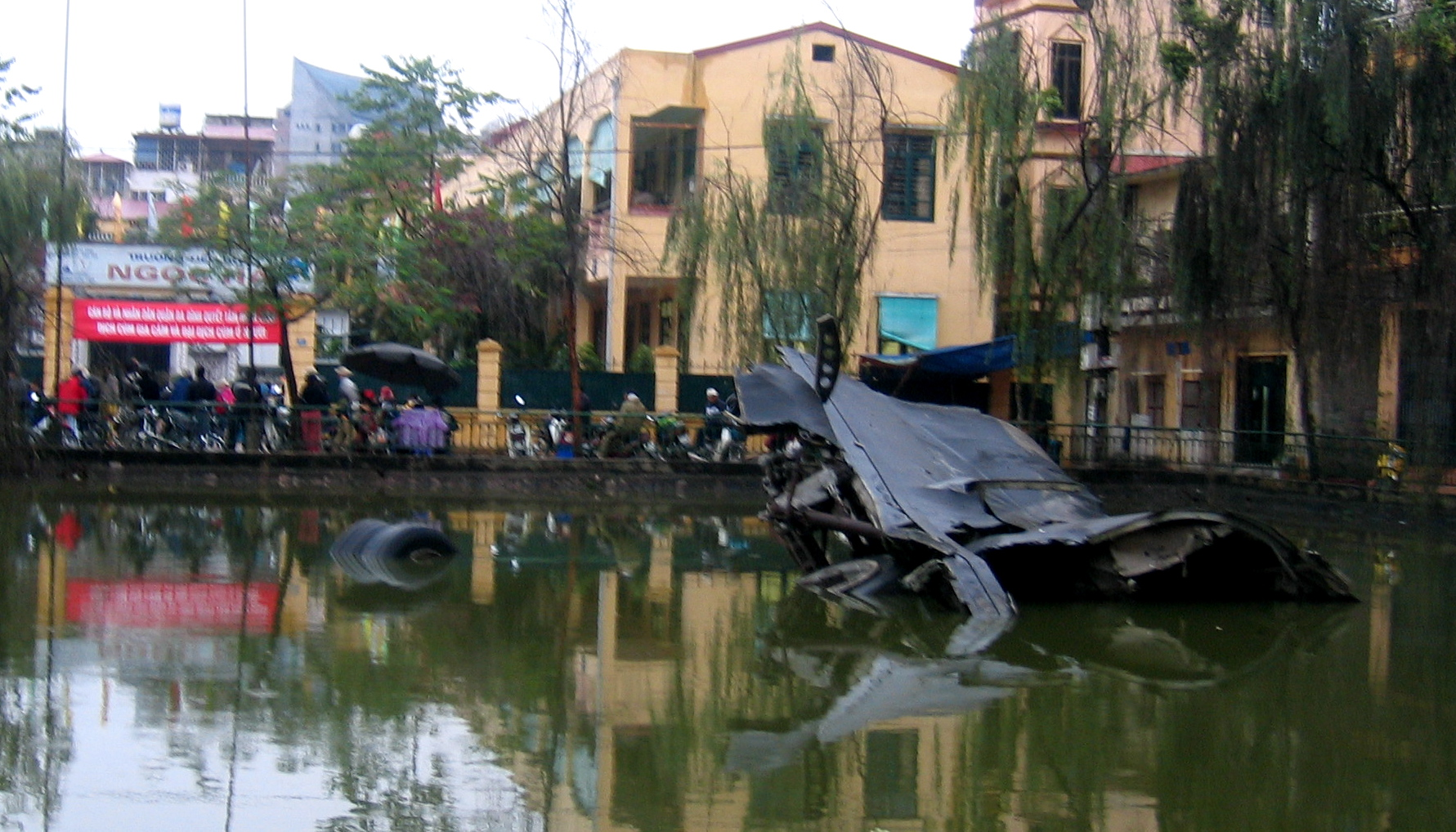 This was a piece of a B-52 that was shot down in 1972 that has been left as a historical vestige by the people of Hanoi, Vietnam.